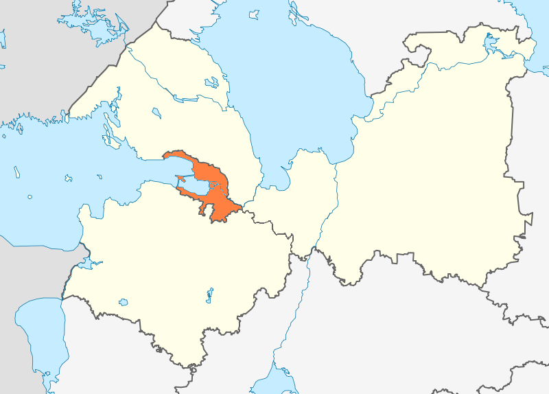 Image to indicate St.-Petersburg metropolia's eparchies. Subject as indicated by filename.